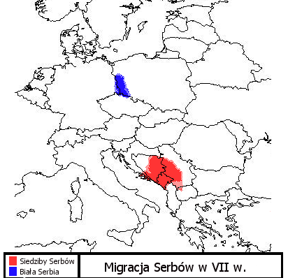 Migration of Serbs in VII c.